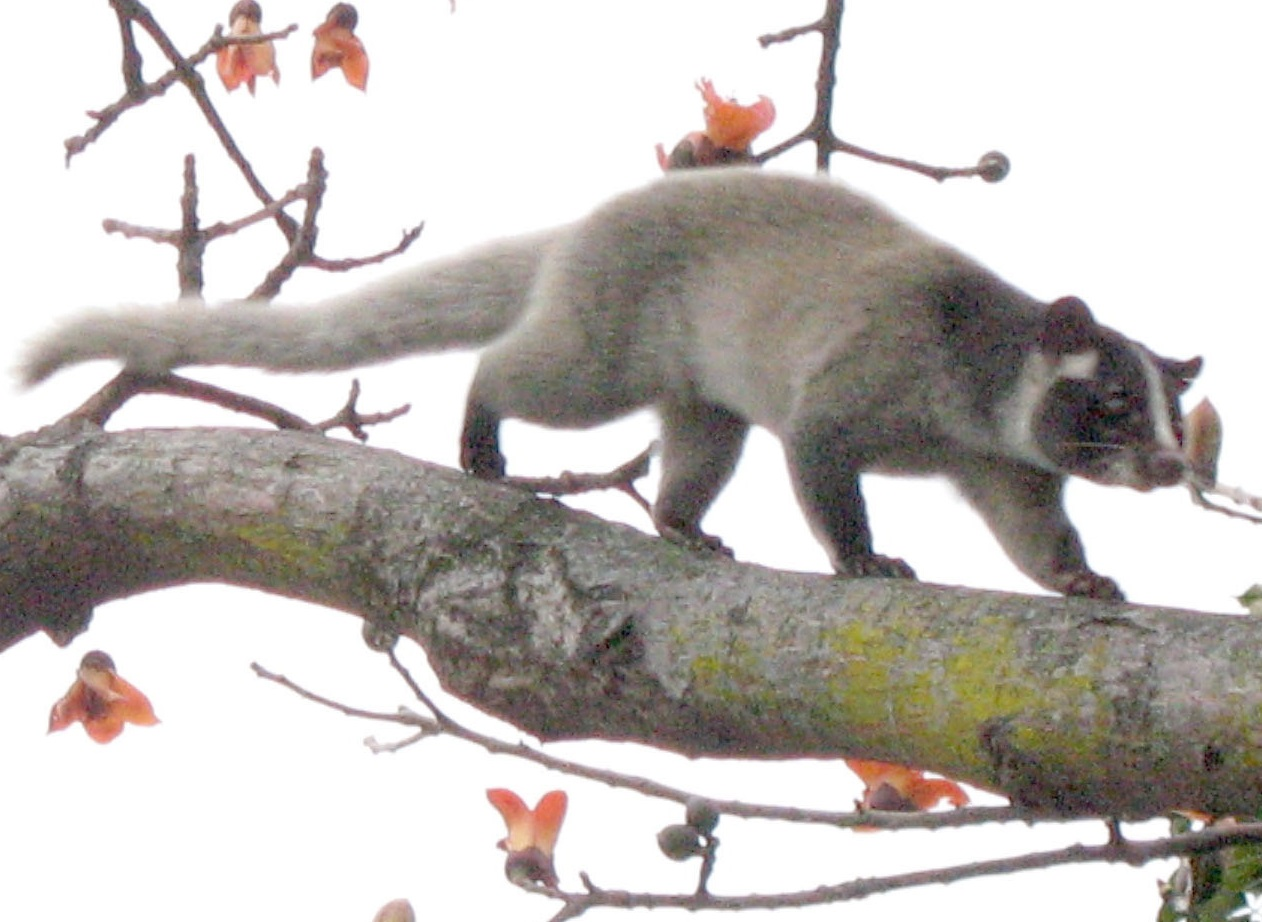 Masked palm civet (a.k.a. gem-faced civet). Photographer's original comments: "The cotton tree flowers had attracted a whole lot of guests to feed upon its banquet... However I was not prepared to find a palm civet - outside my window - in the middle of the city!"